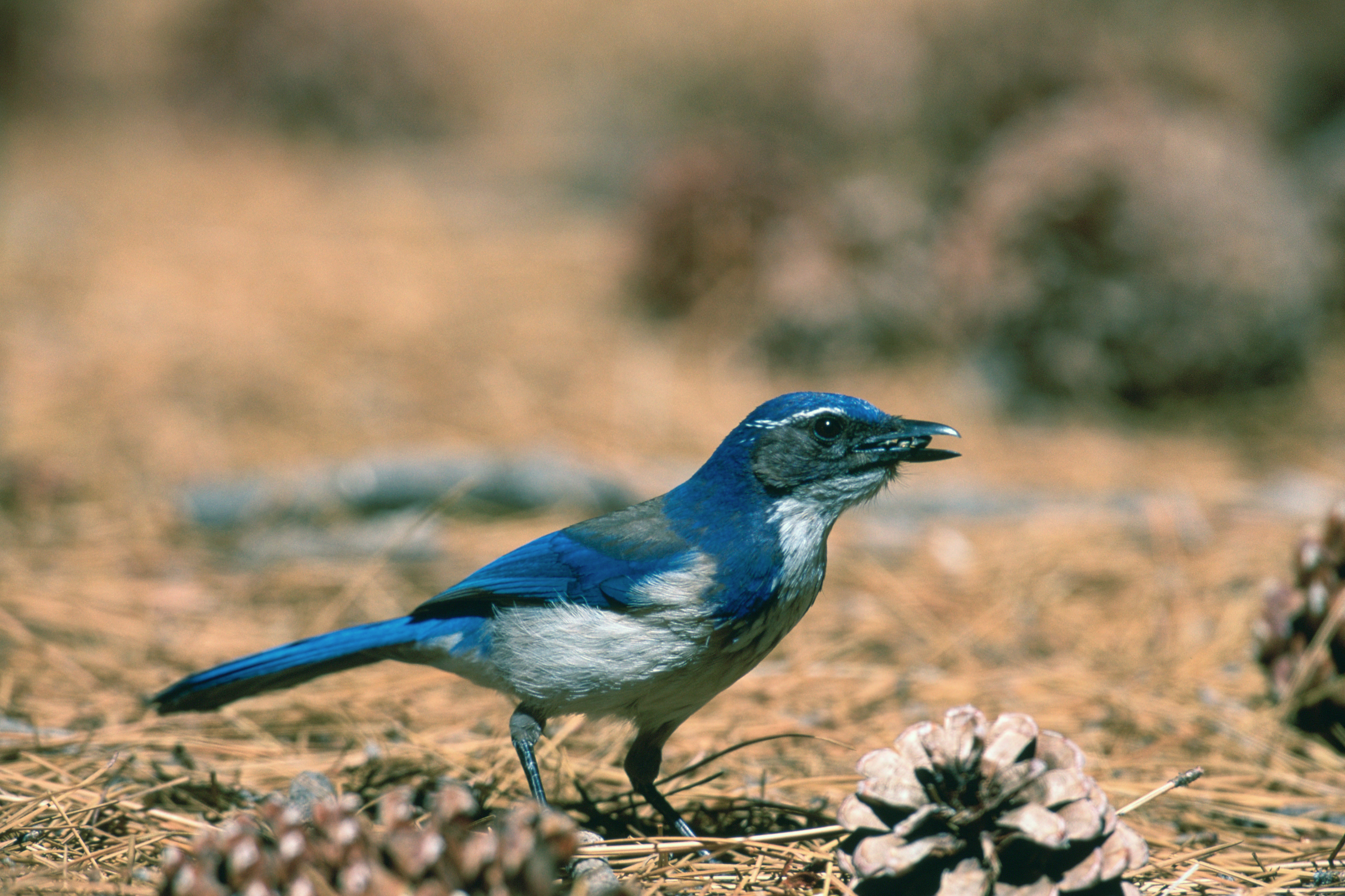 Western scrub jay (Aphelocoma californica)